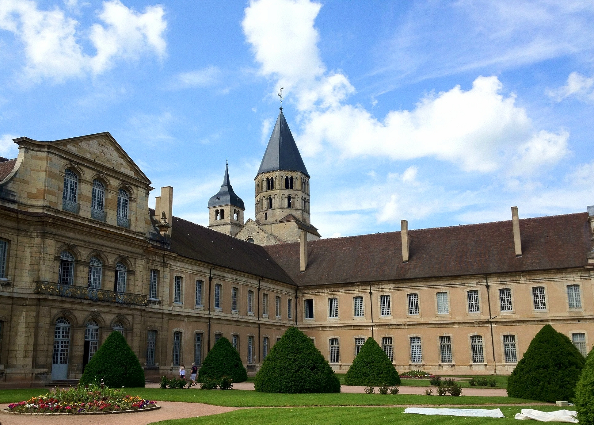 Cluny Abbey (or Cluni, or Clugny) is a Benedictine monastery in Cluny, Saône-et-Loire, France. It was built in the Romanesque style, with three churches built in succession from the 10th to the early 12th centuries. Cluny was founded by William I, Duke of Aquitaine in 910. He nominated Berno as the first Abbot of Cluny, subject only to Pope Sergius III. The Abbey was notable for its stricter adherence to the Rule of St. Benedict and the place where the Benedictine Order was formed, whereby Cluny became acknowledged as the leader of western monasticism. The establishment of the Benedictine order was a keystone to the stability of European society that was achieved in the 11th century. In 1790 during the French Revolution, the abbey was sacked and mostly destroyed. Only a small part of the original remains. Dating around 1334, the abbots of Cluny had a townhouse in Paris known as the Hôtel de Cluny, which has been a public museum since 1833. Apart from the name, it no longer possesses anything originally connected with Cluny. Cluny Abbey. (2012, May 15). In Wikipedia, The Free Encyclopedia. Retrieved 08:00, May 31, 2012, from